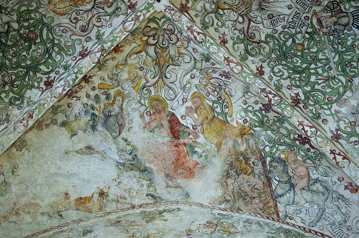 Paintings from 1460 in The Krämare chapel in St Peter church, Malmö, Sweden.